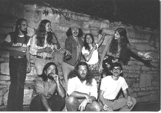 Greezy Wheels in the alley behind the Ritz Theater East Sixth Austin Texas MORE PHOTOS